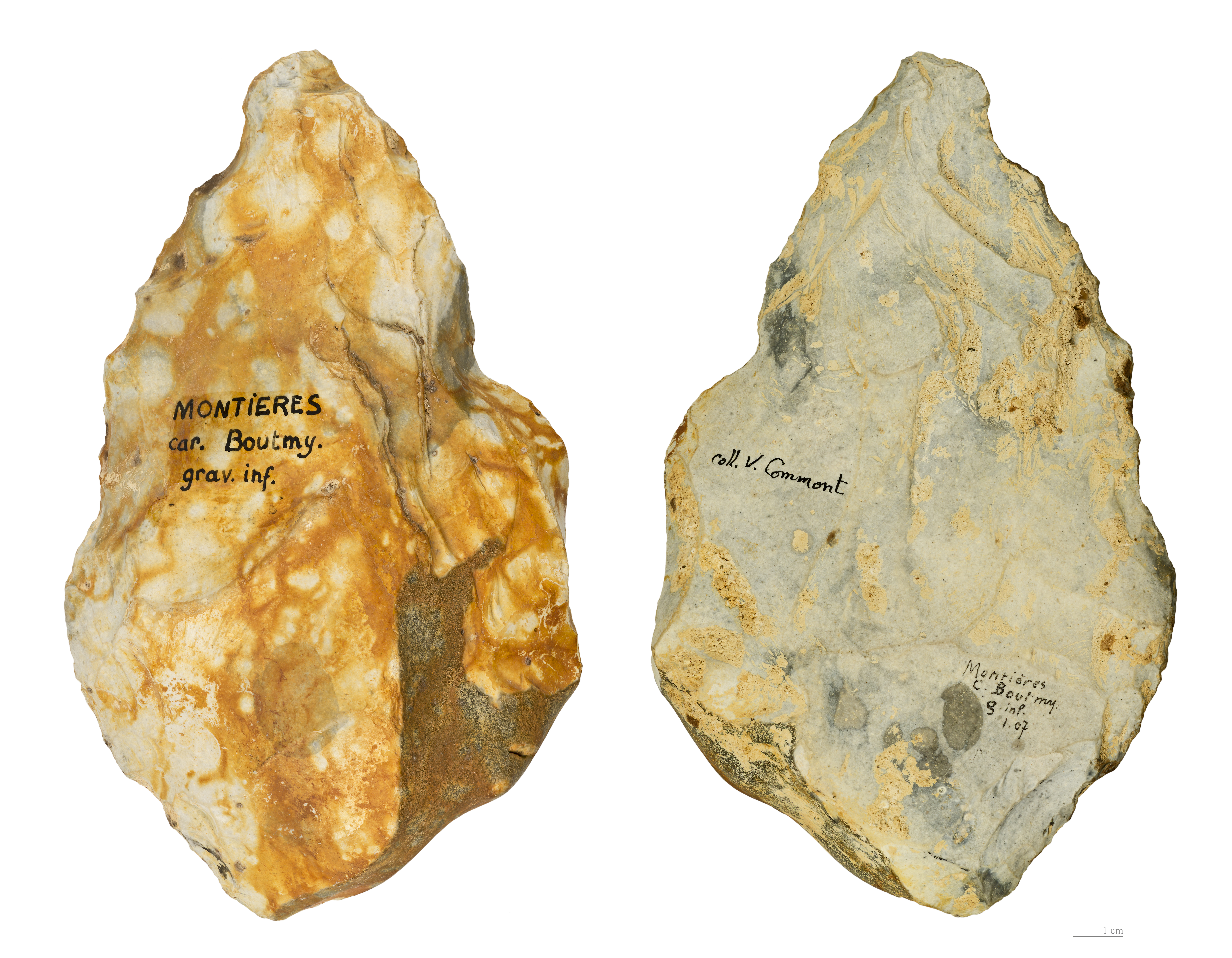 Biface in flint. The two sides of the same specimen. Stage : upper Acheulean (300 000 years Before the Current Era) Locality : Montières, carrière Boutmy, Bouttencourt, Somme, France. Former collection of Victor Commont